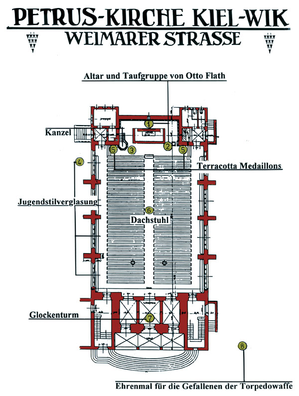 Ground plan of Petrus-Kirche Kiel Wik